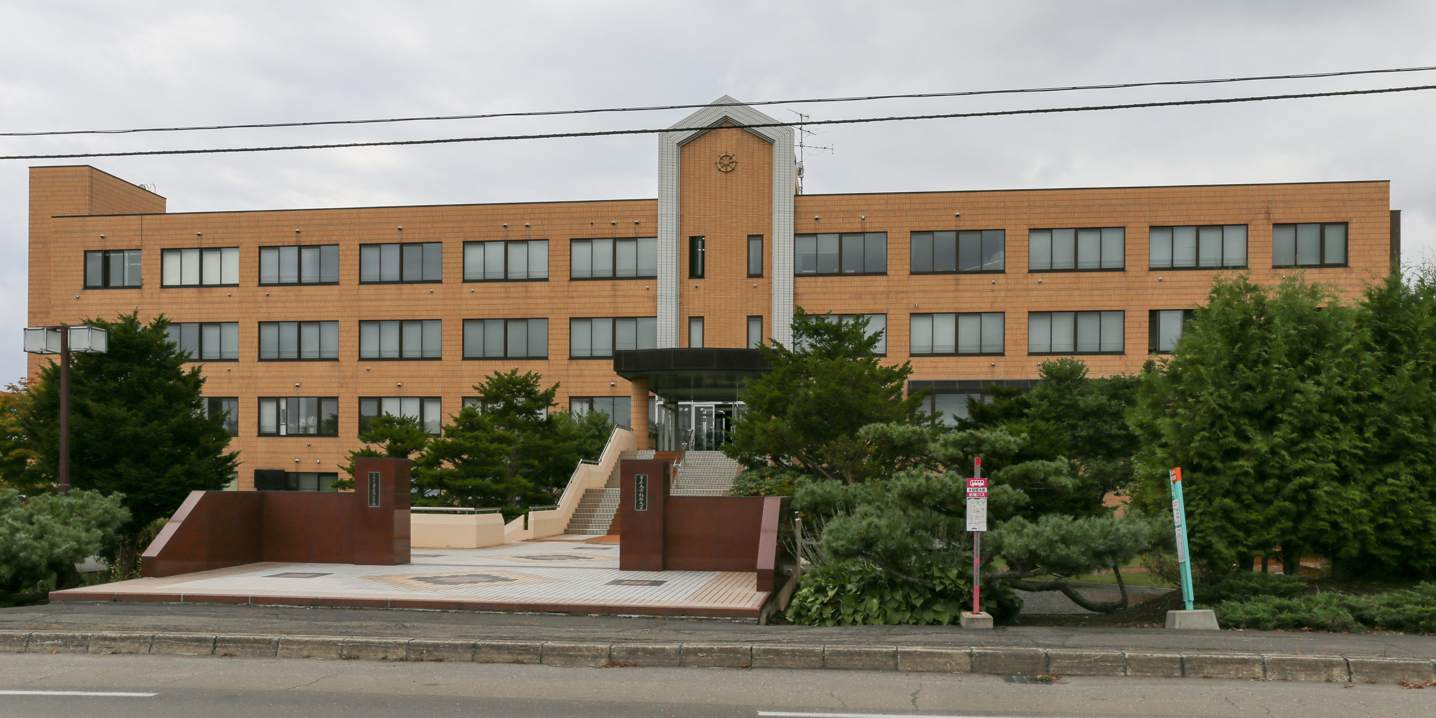 Obihiro Otani Junior College in Otofuke Town, Hokkaido, Japan